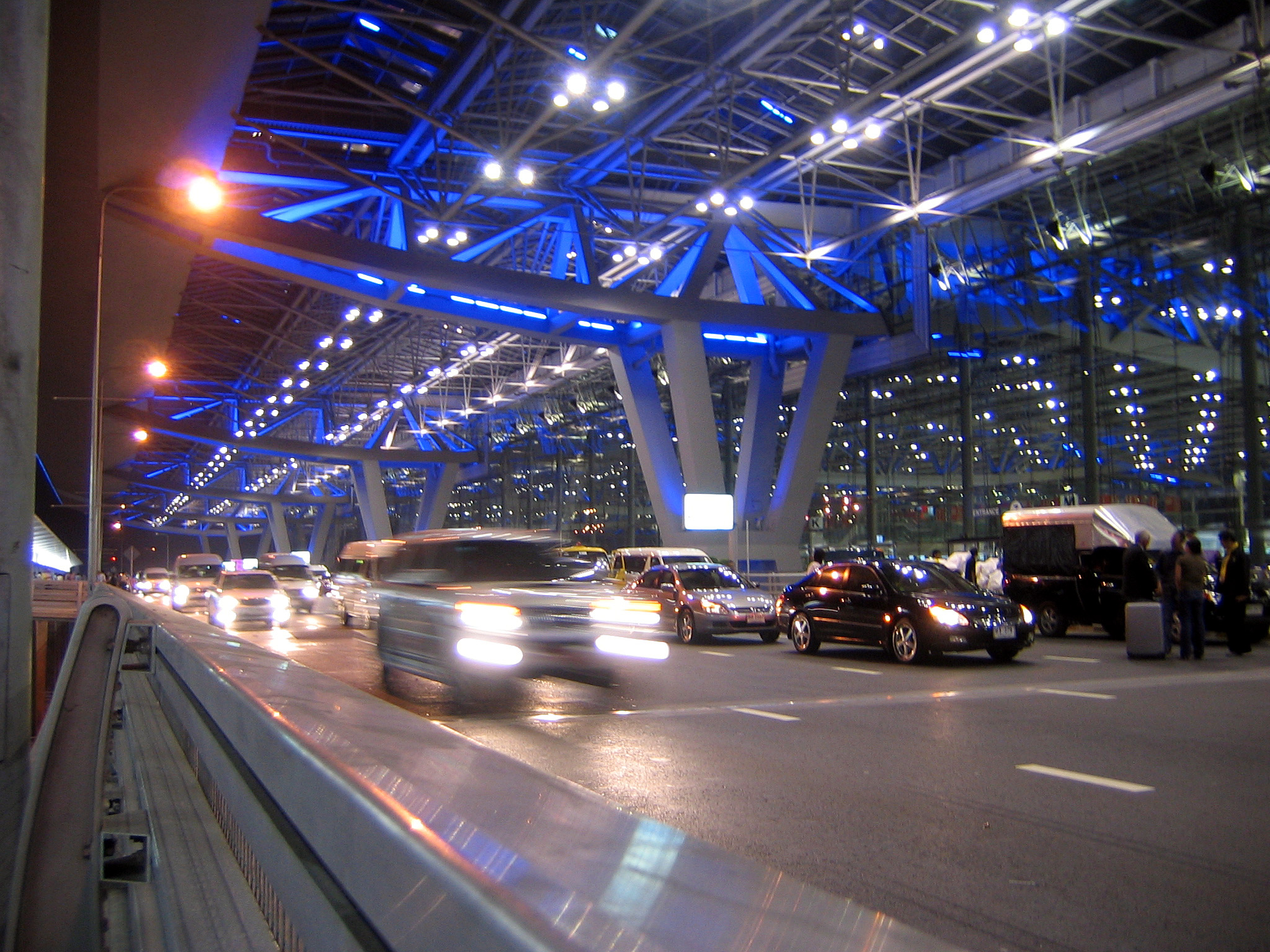 Suvarnabhumi International Airport Bangkok, Thailand. Terminal building departures level from outside.